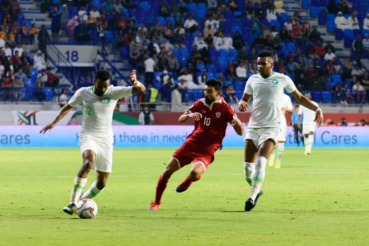 Match scene of Lebanon vs Saudi Arabia (Asian Cup 2019)